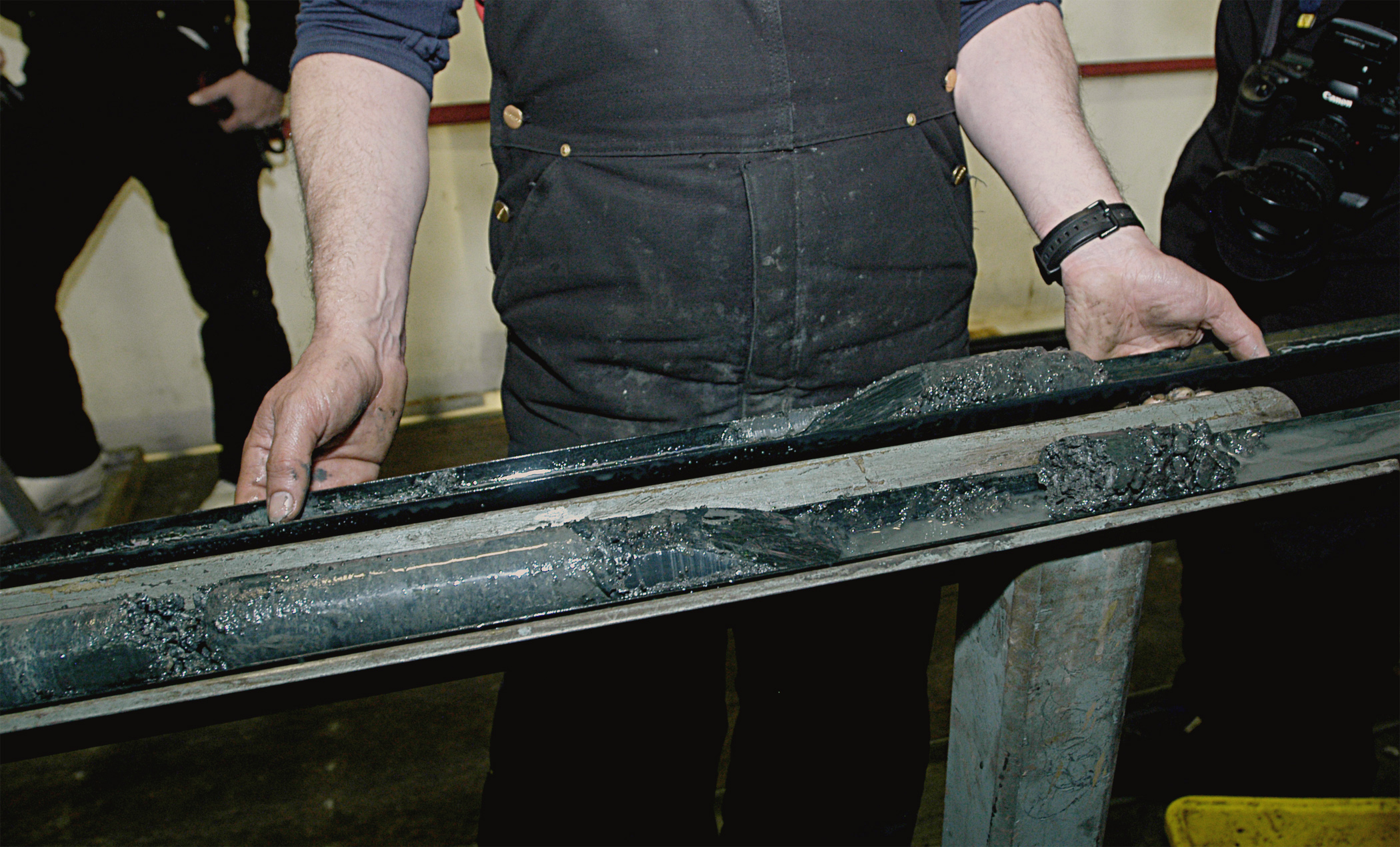 A sediment core sample extracted for the ANtarctic geological DRILLing program known as ANDRILL. Sediment and rock core were extracted from the ocean floor under the Ross Ice Shelf during the 2006-2007 austral summer. To learn more, visit